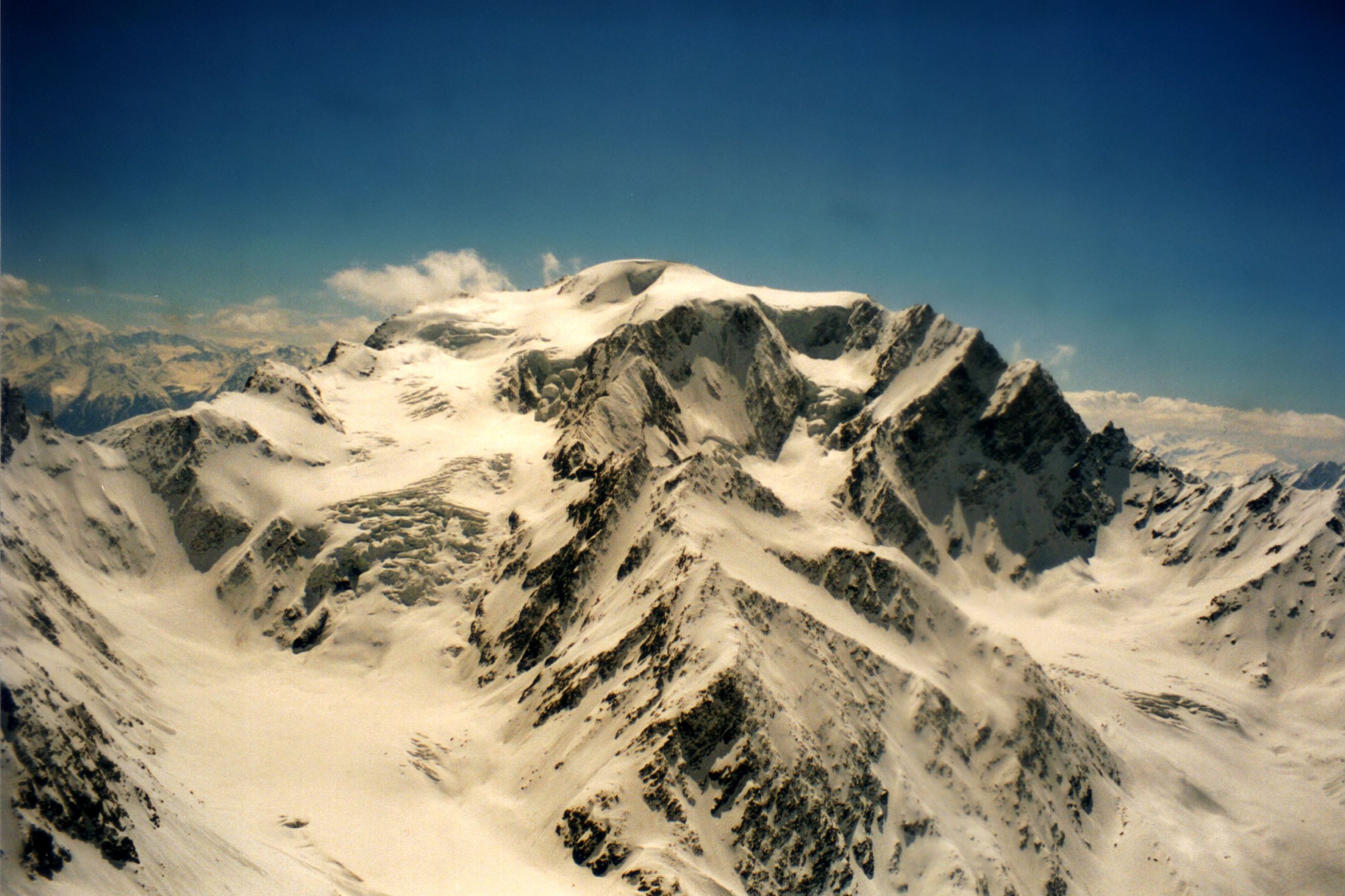 Mont Vélan (3727m) from northeast, Plateau Du Couloir underneath le Grand Combin, Wallis, Switzerland. Glacier de Valsorey (left) and Glacier de Tseudet (right).